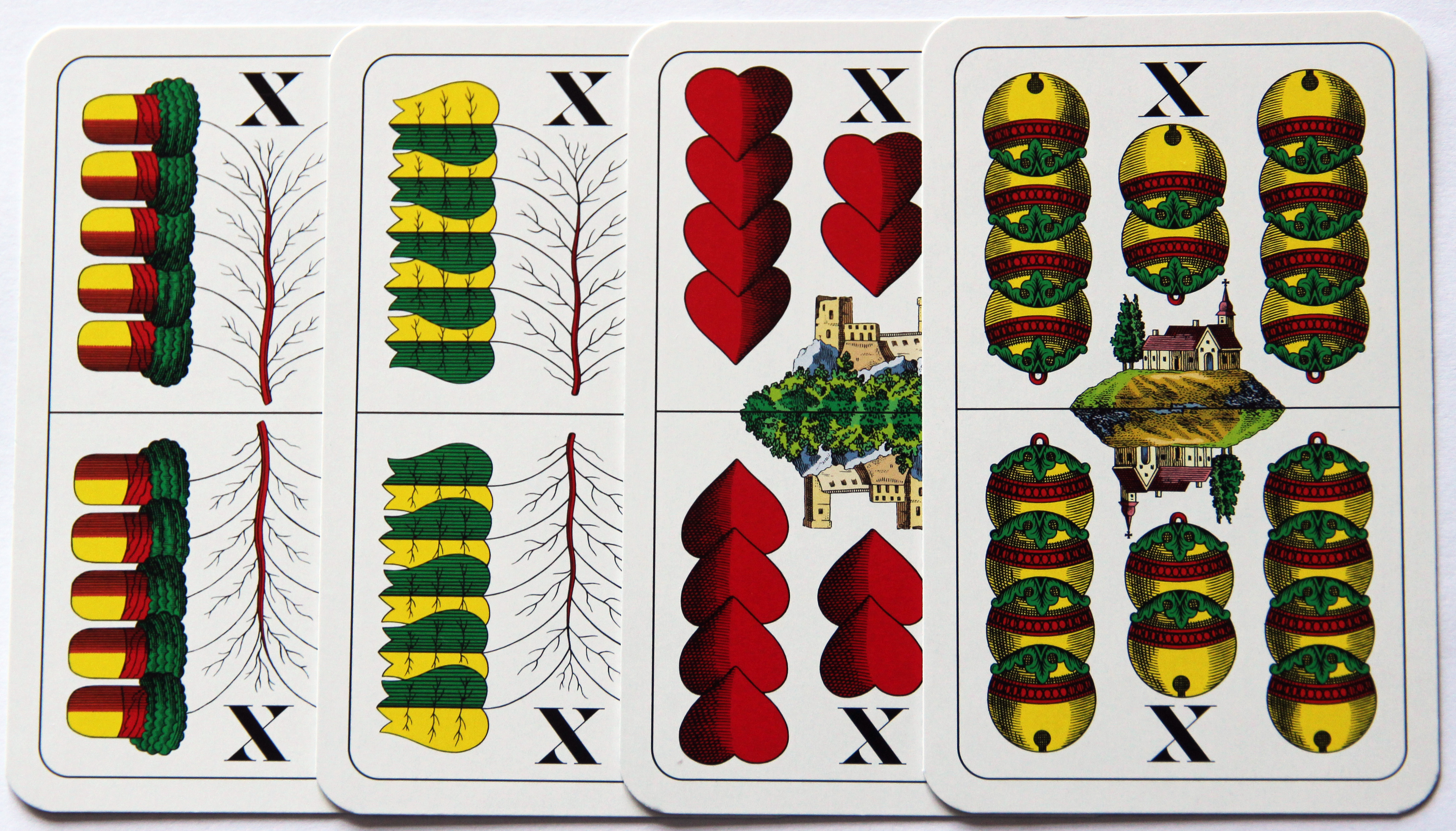 The Matzen in a William Tell pack The original artist of the card design is József Schneider, 19th century (source: Daily News Hungary: From Germany to Hungary, the story of tell cards, by Gergely Lajtai-Szabó, 15 October 2017).